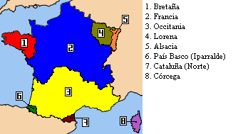 Nations of the french state